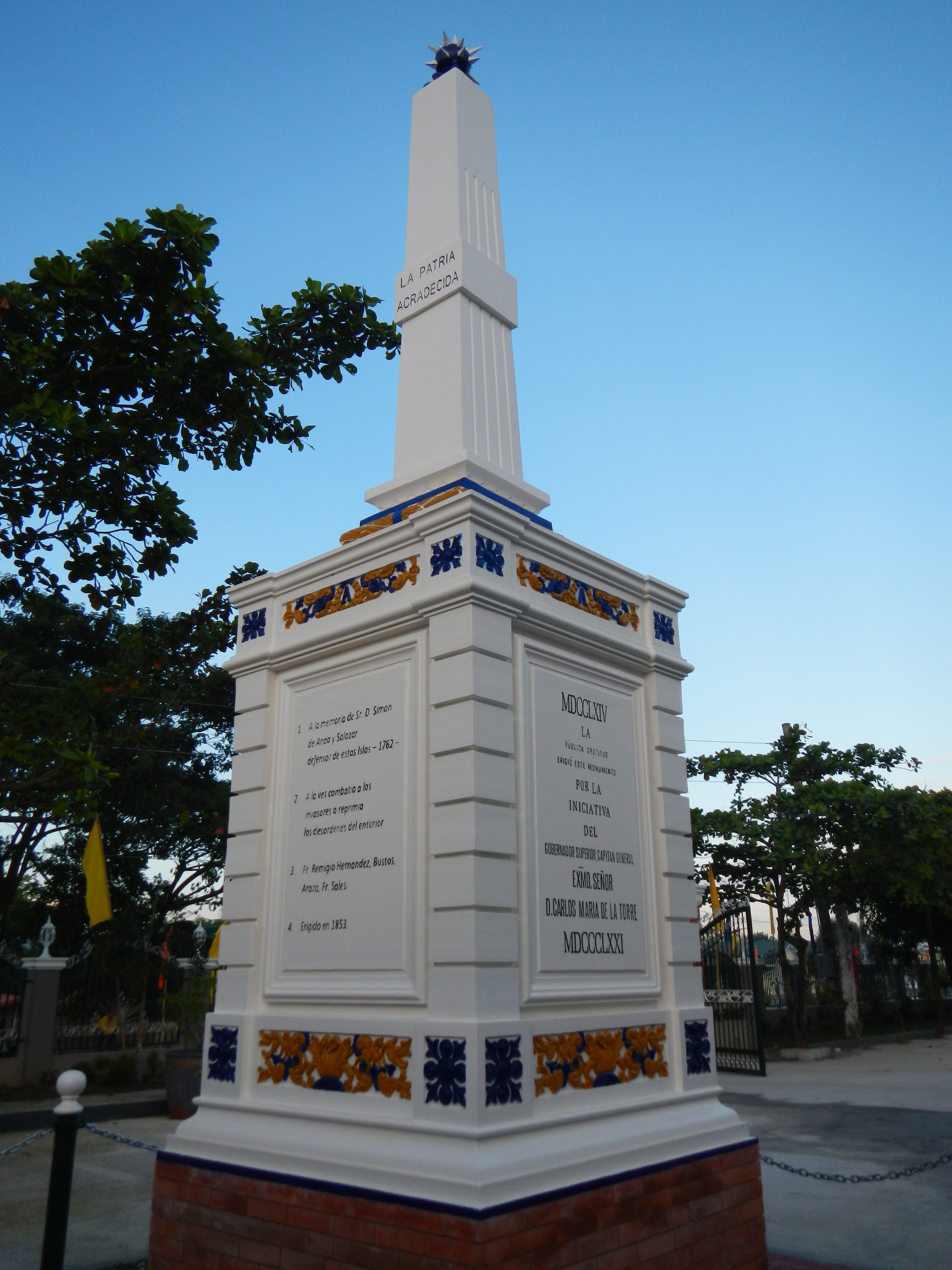 Simón de Anda y Salazar[1] Bacolor, Pampanga[2]